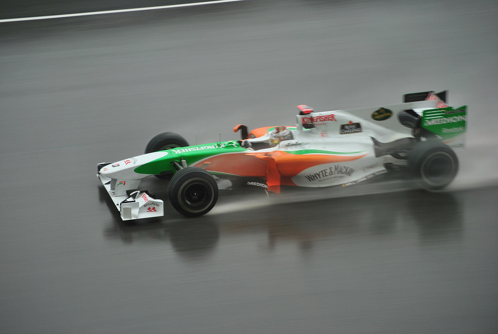 Sutil 2010 here